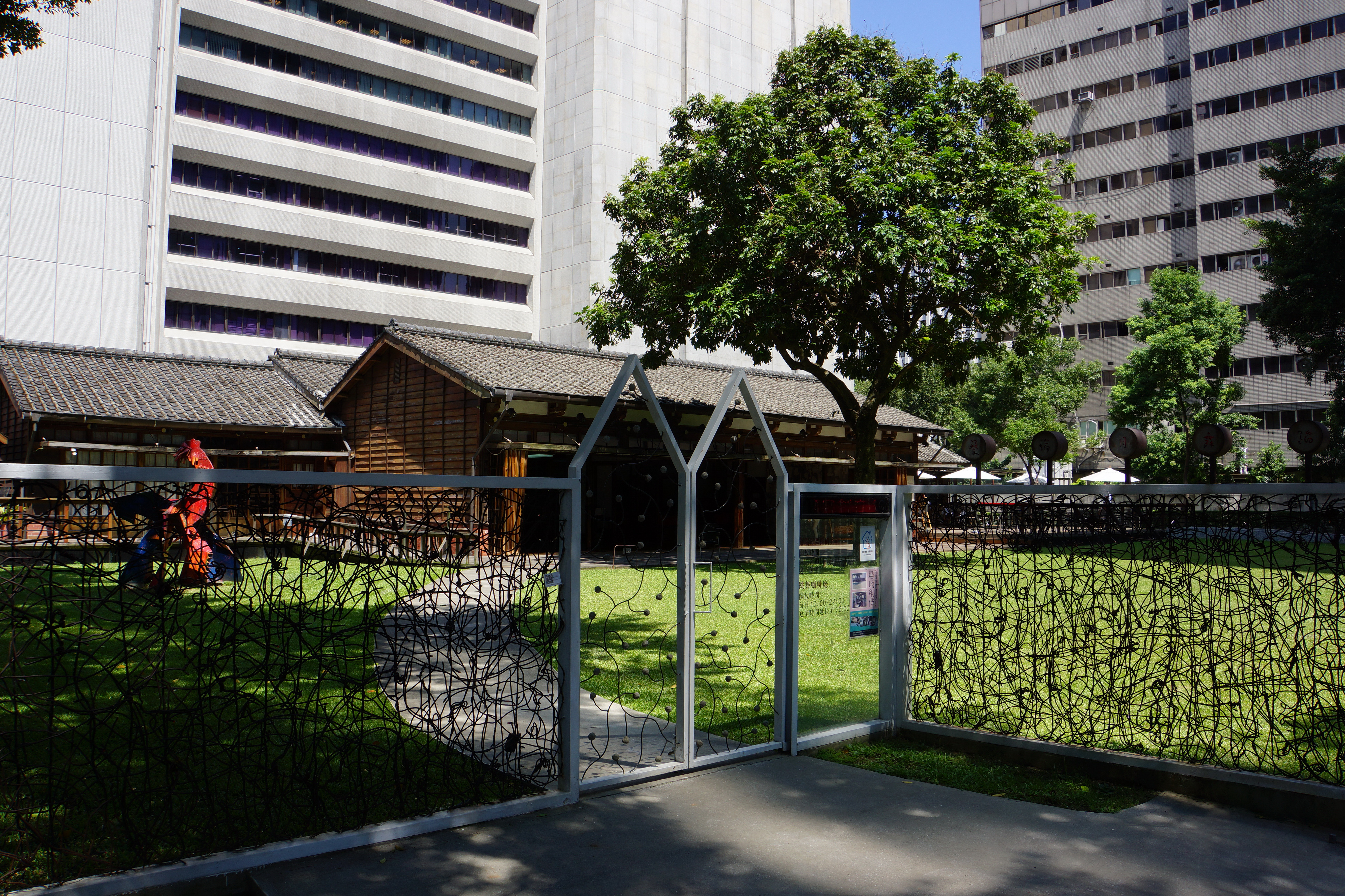 The main gate of Tsai Jui-yueh Dance Institute.